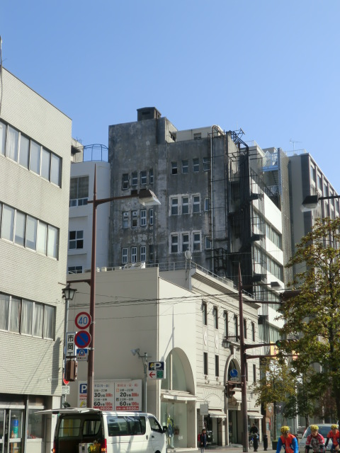 Washington Building(Kaneyasu Department store) in Kitakyushu city. There is "bouku kanshi sho"(air defense dome in WW2) on the top.